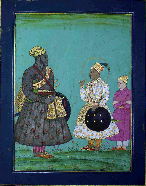 Murtaza Nizam Shah with a black visier (Malik Amber?) and a younger man.